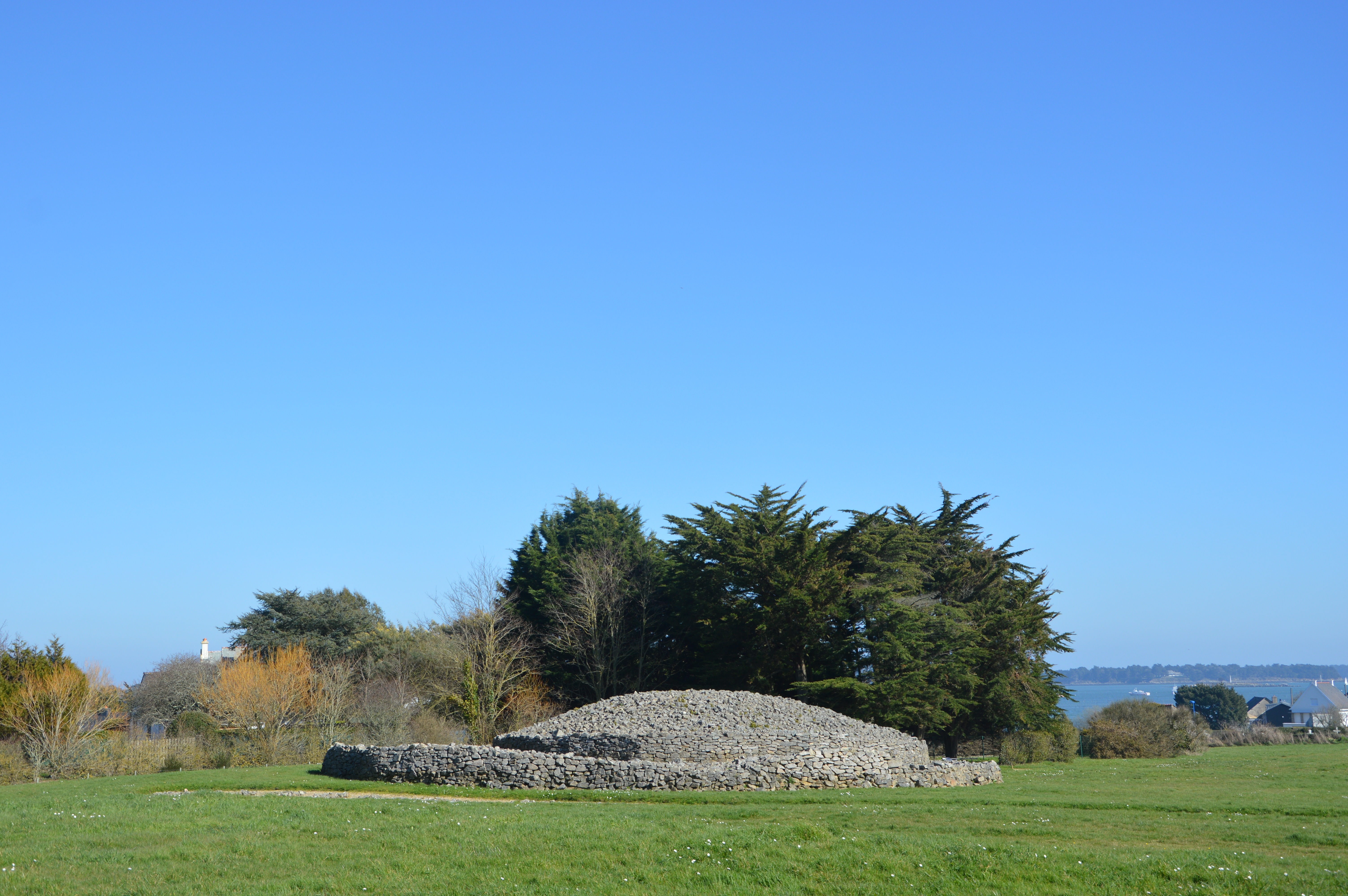 The restored cairn of the dolmen called 'La Table des Marchand' in Locmariaquer (Morbihan, Brittany, France)